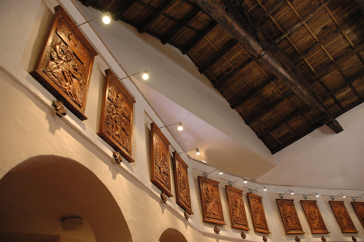 Choir of the Church of Saints Fabiano and Sebastian, Fiamognano, Italy